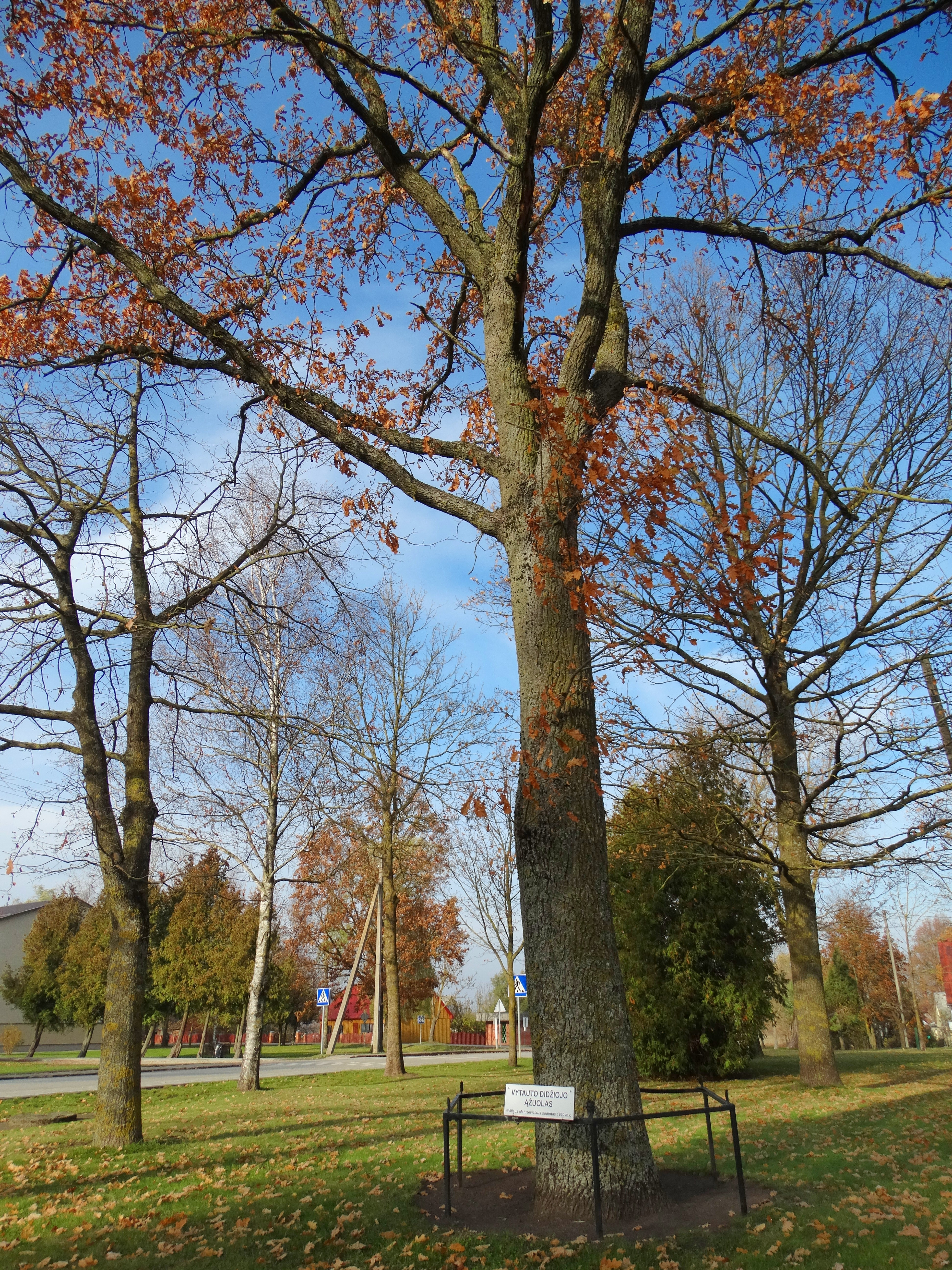 Vytautas Oak, Krinčinas, Pasvalys District, Lithuania